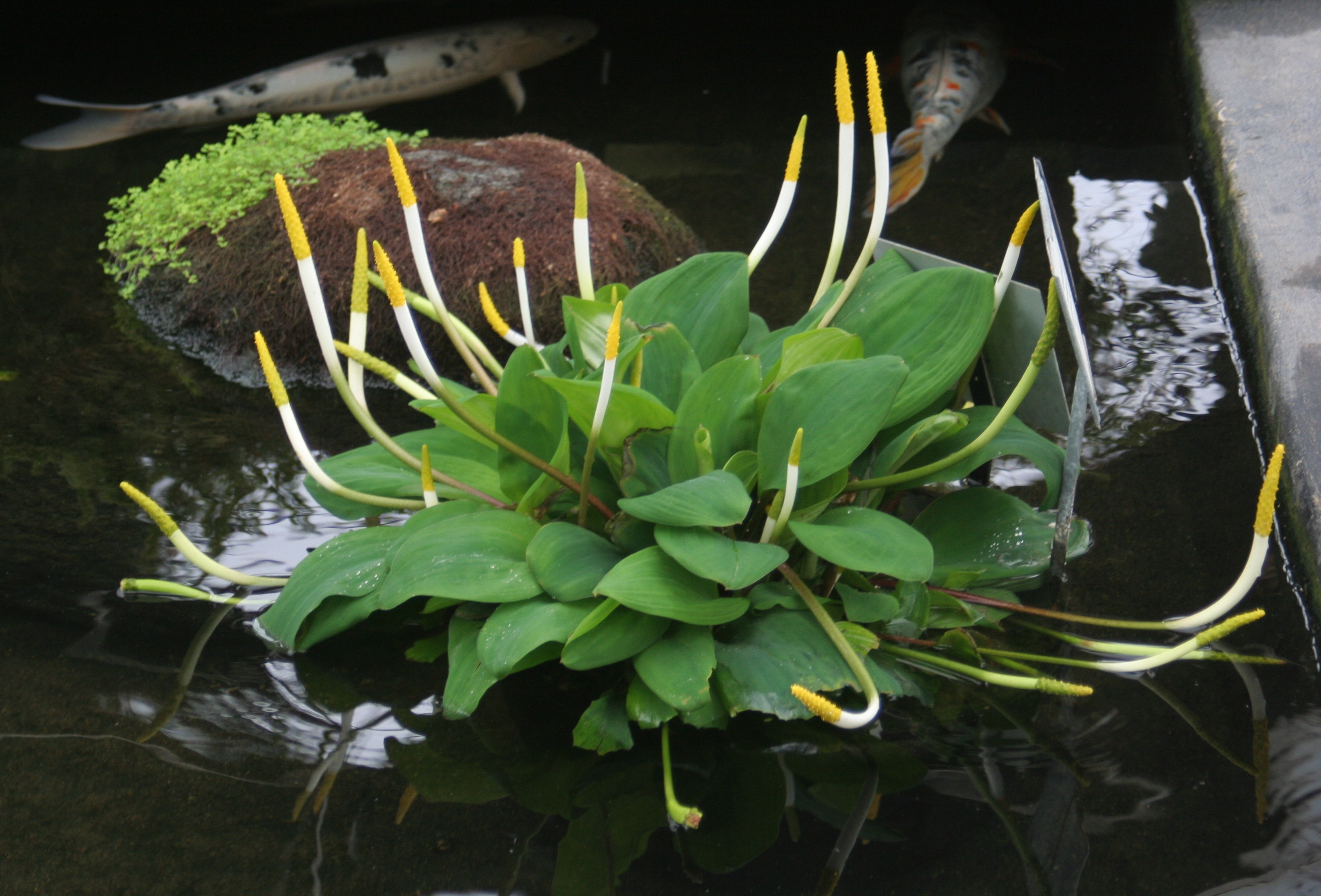 Golden Club (Orontium aquaticum) at the Buffalo and Erie County Botanical Gardens.